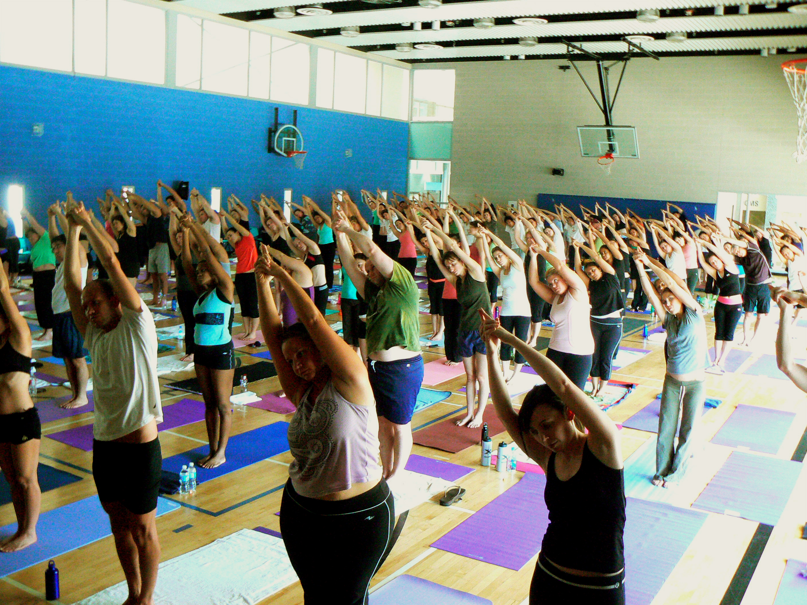 Crescent Moon Pose